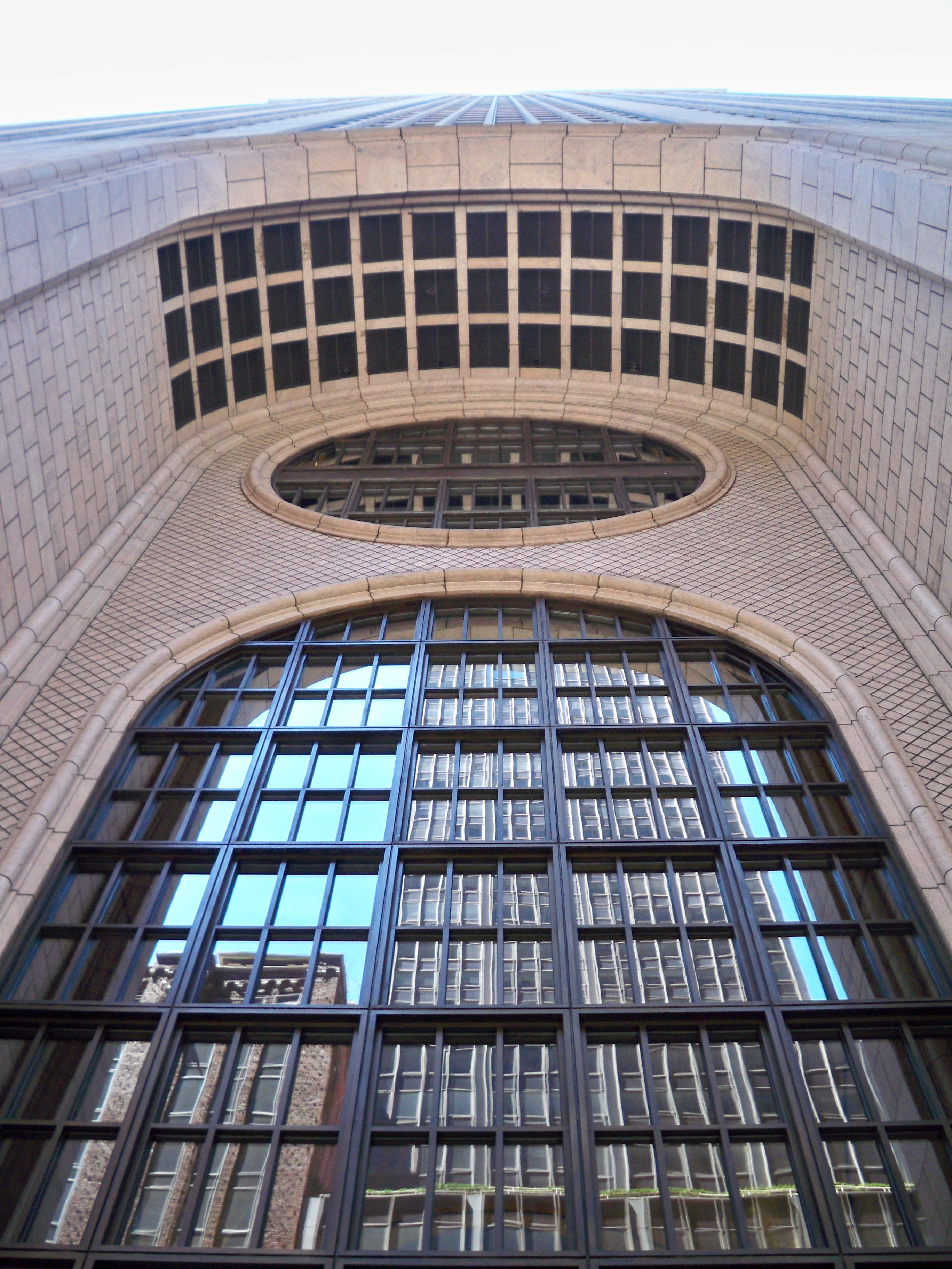 The entrance to the Sony Building and former AT&T Headquarters in New York City.